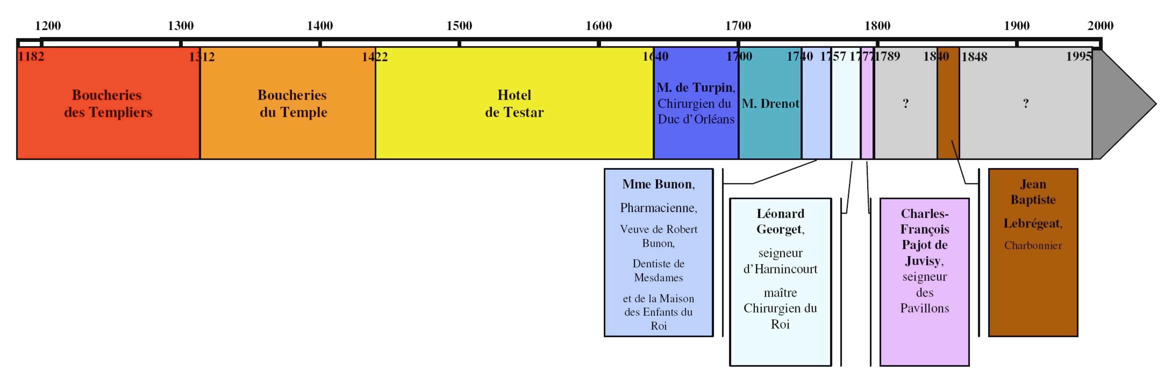 Chronologie de la maison du 14 rue de Braque